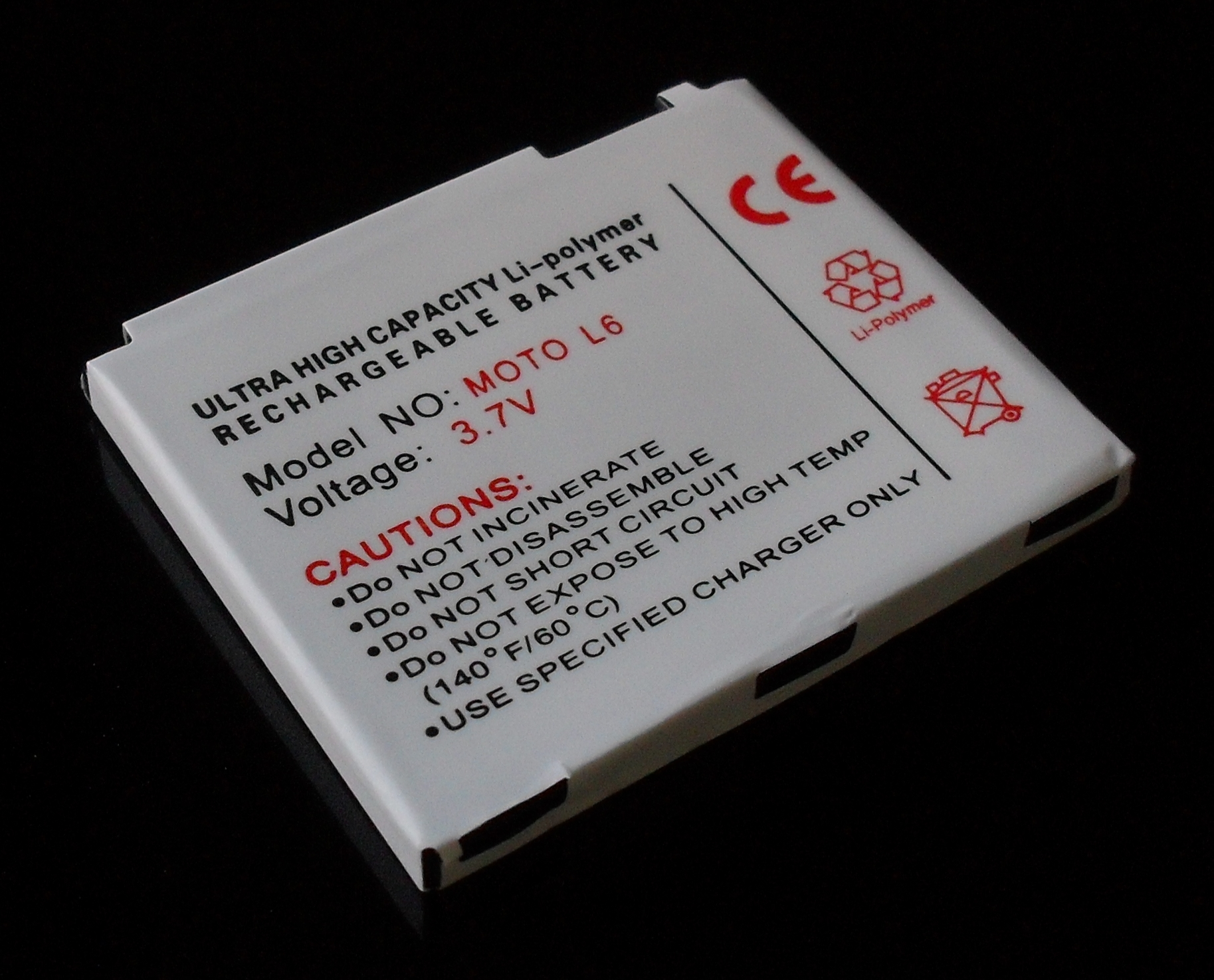 Li-polymer battery.